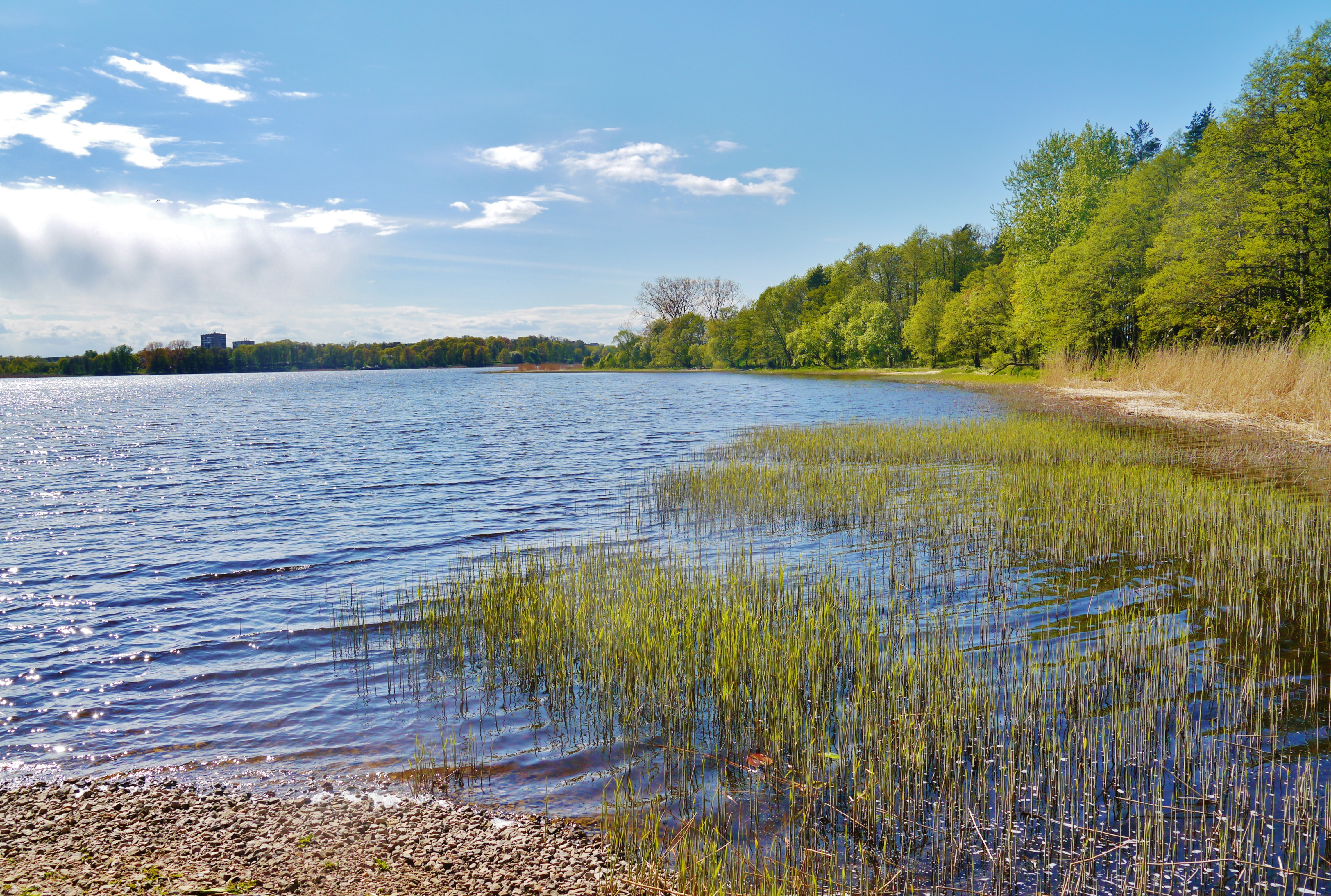 View to Juglas Lake, Ethnographic Museum, Bergi, Latvia